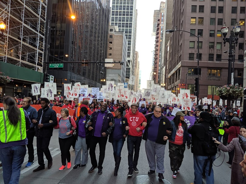 CTU and SEIU Members March Through the Loop